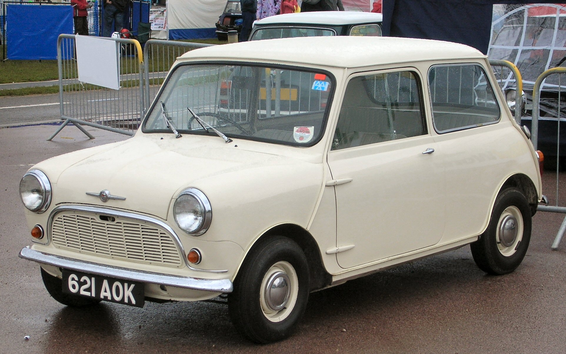 A 1959 Morris Mini-Minor. This car, with registration number 621 AOK, was the first Mini off the production line to be badged Morris. It was never sold, and is now kept at the British Motor Museum, Gaydon, UK. Photographed at the Gaydon Mini Festival 2007.